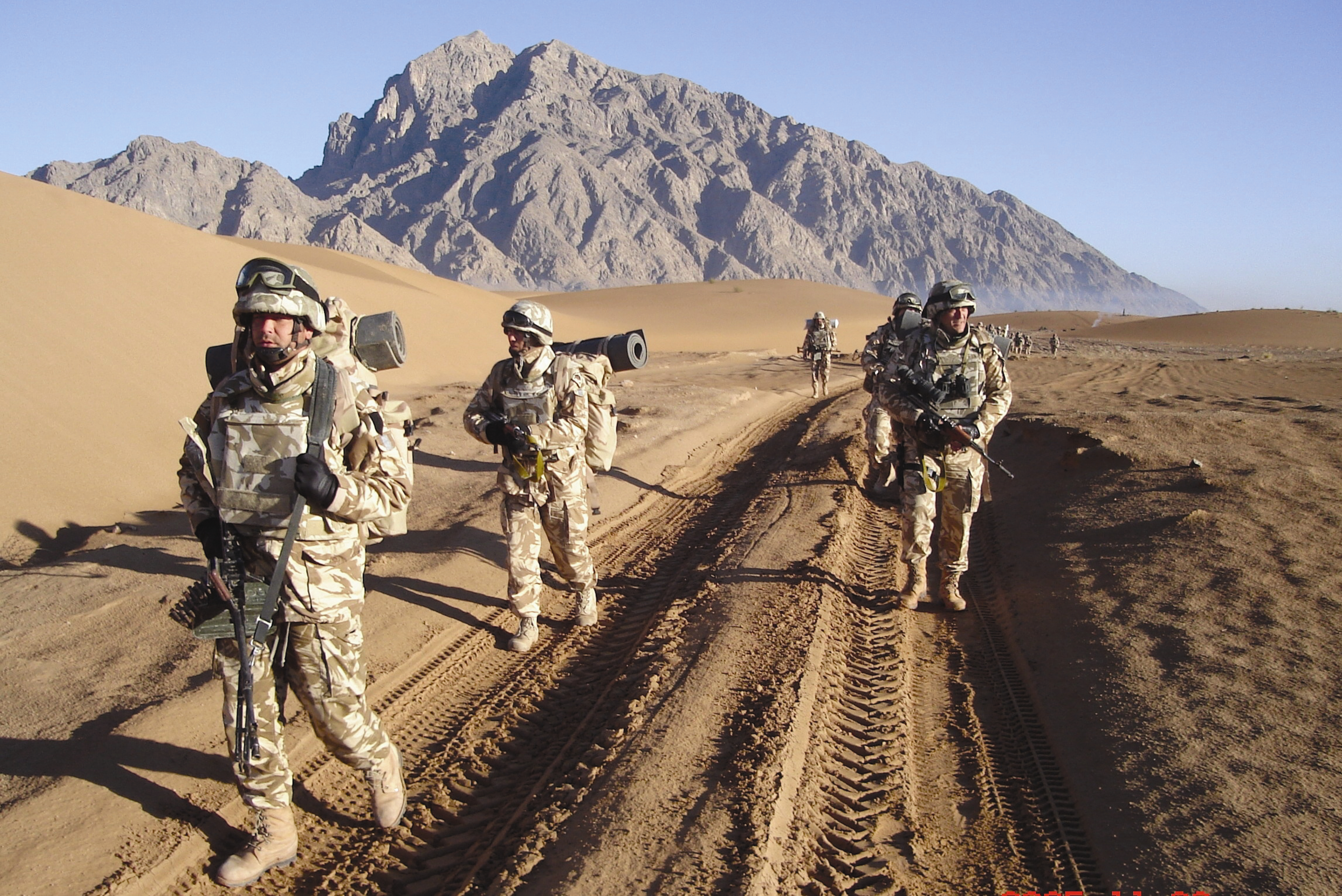 Romanian Land Forces on a Patrol mission in Afghanistan